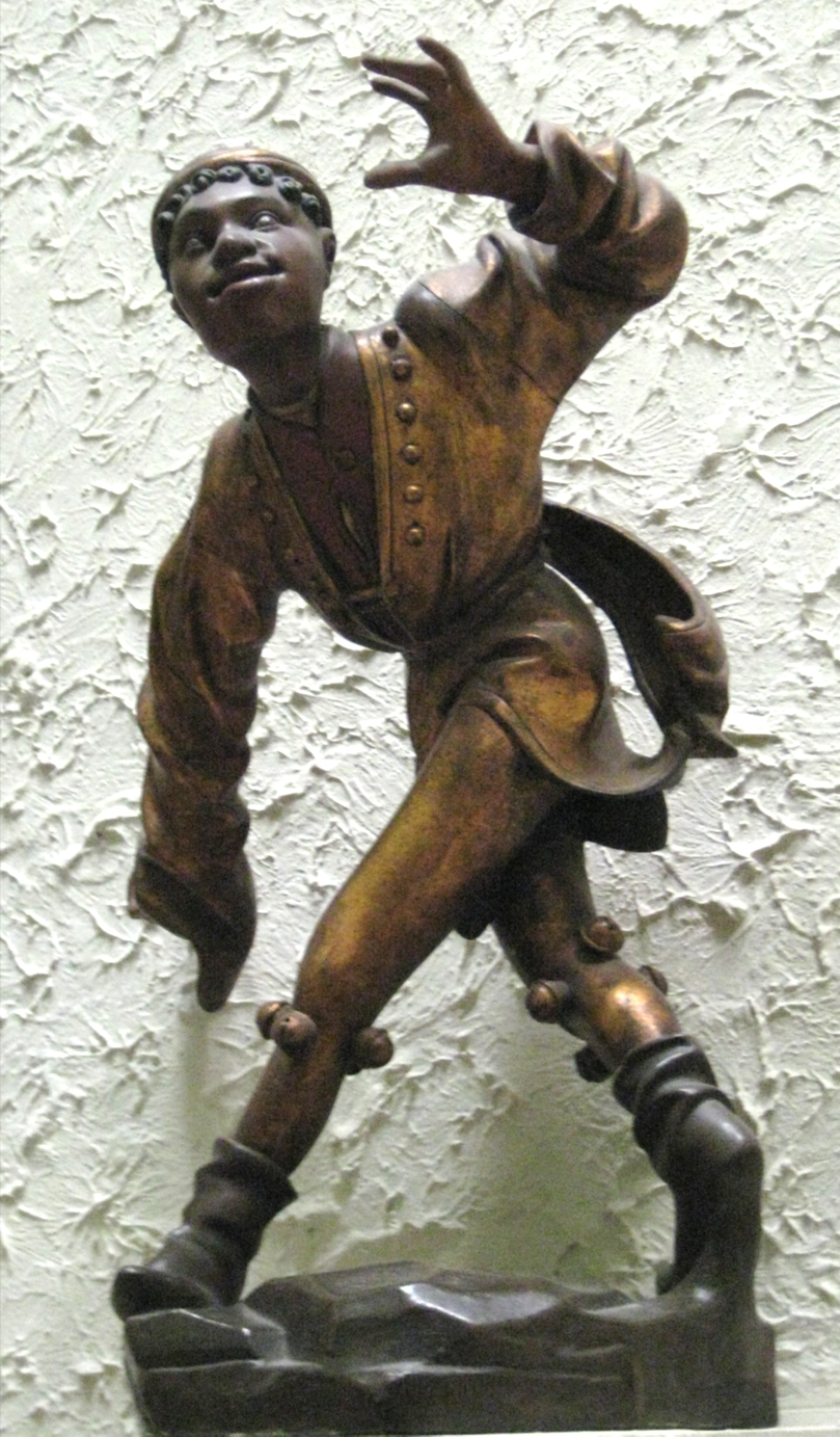 Moriskentänzer, one of 16 (now 10) wood Morris Dancers by Erasmus Grasser, Munich Stadtmuseum, 1480. Plaster cast in Pushkin museum. (Are missing the most important persons of dance - Fair lady, Musician and Jester).